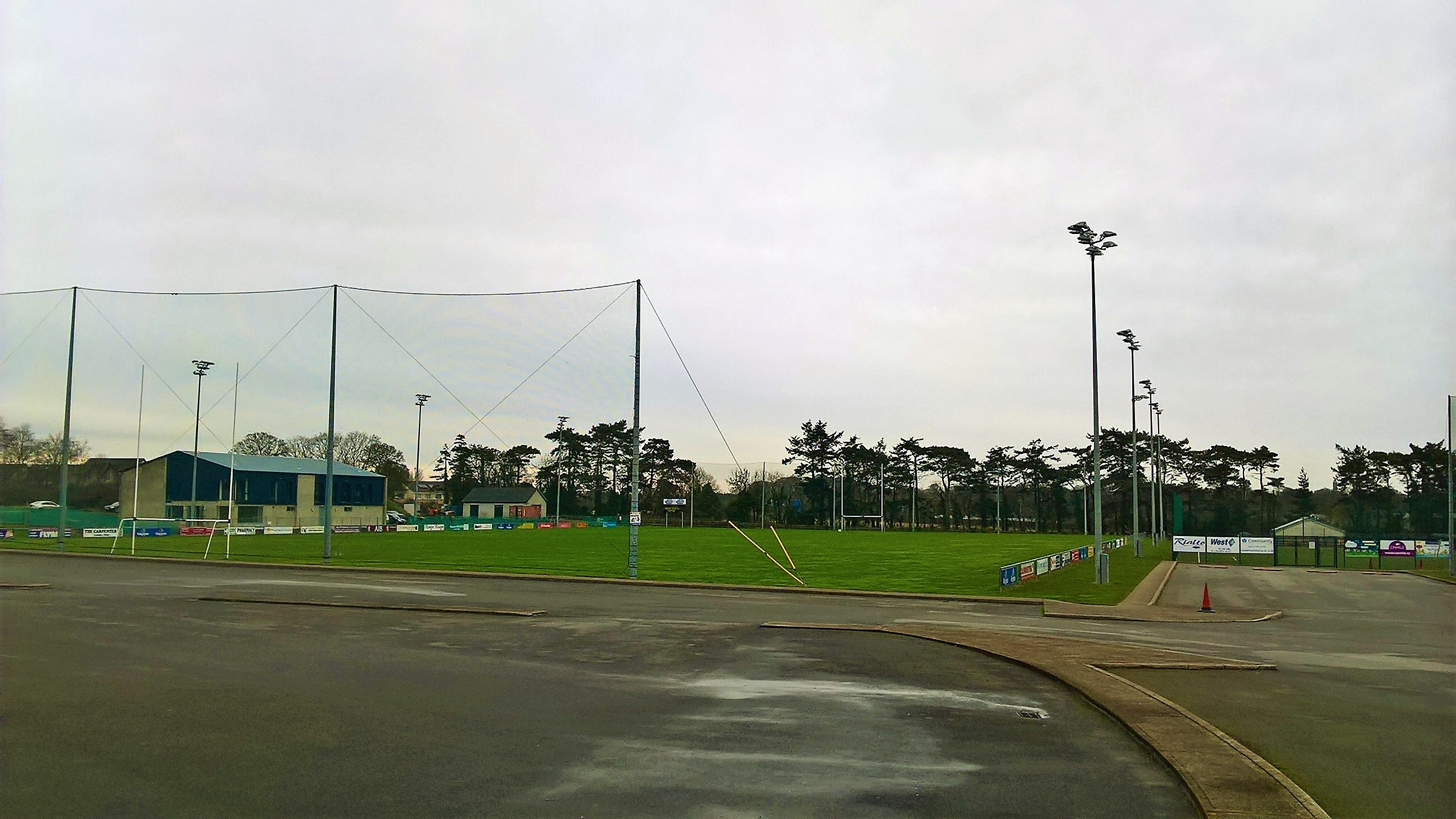 Somerton Park, home of Castleknock GAA.